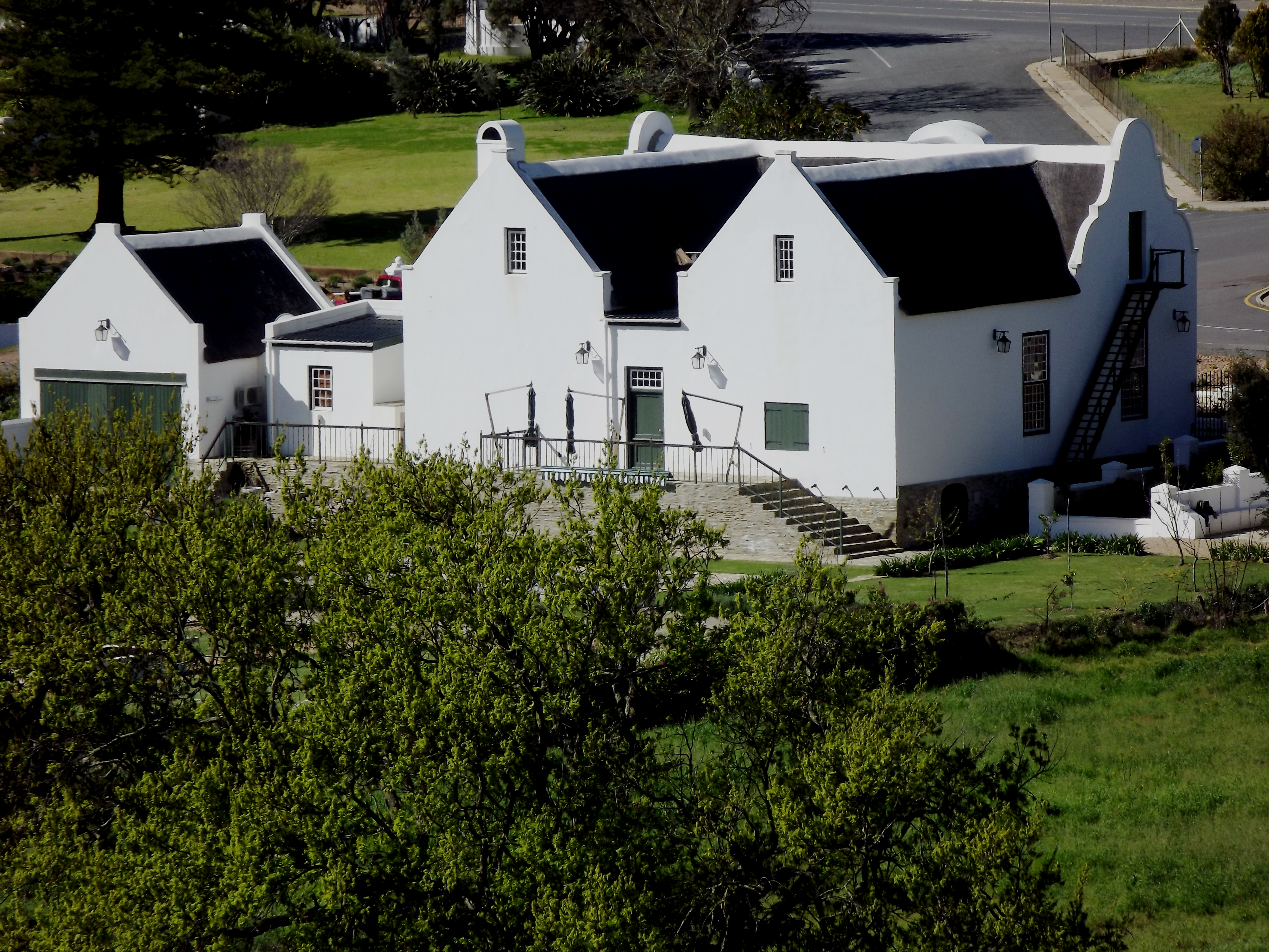 One of the many structures restored to its former glory after a severe earthquake on 29 September 1969 seriously damaged a number of buildings, including the historic houses in Church Street. Tulbagh. The Tulbagh Restoration Committee restored all the historical buildings. These structure is now a cultural heritage monument together with many others in the famous Church Street area. This media shows a South African Protected Site with SAHRA file reference 9/2/094/0016.